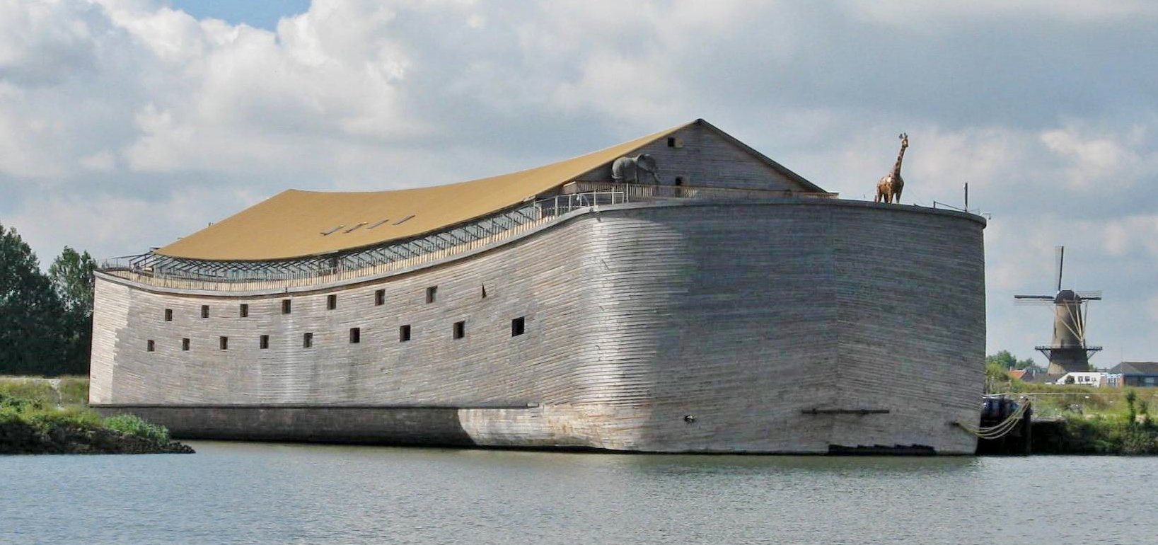 Big Ark in Dordrecht